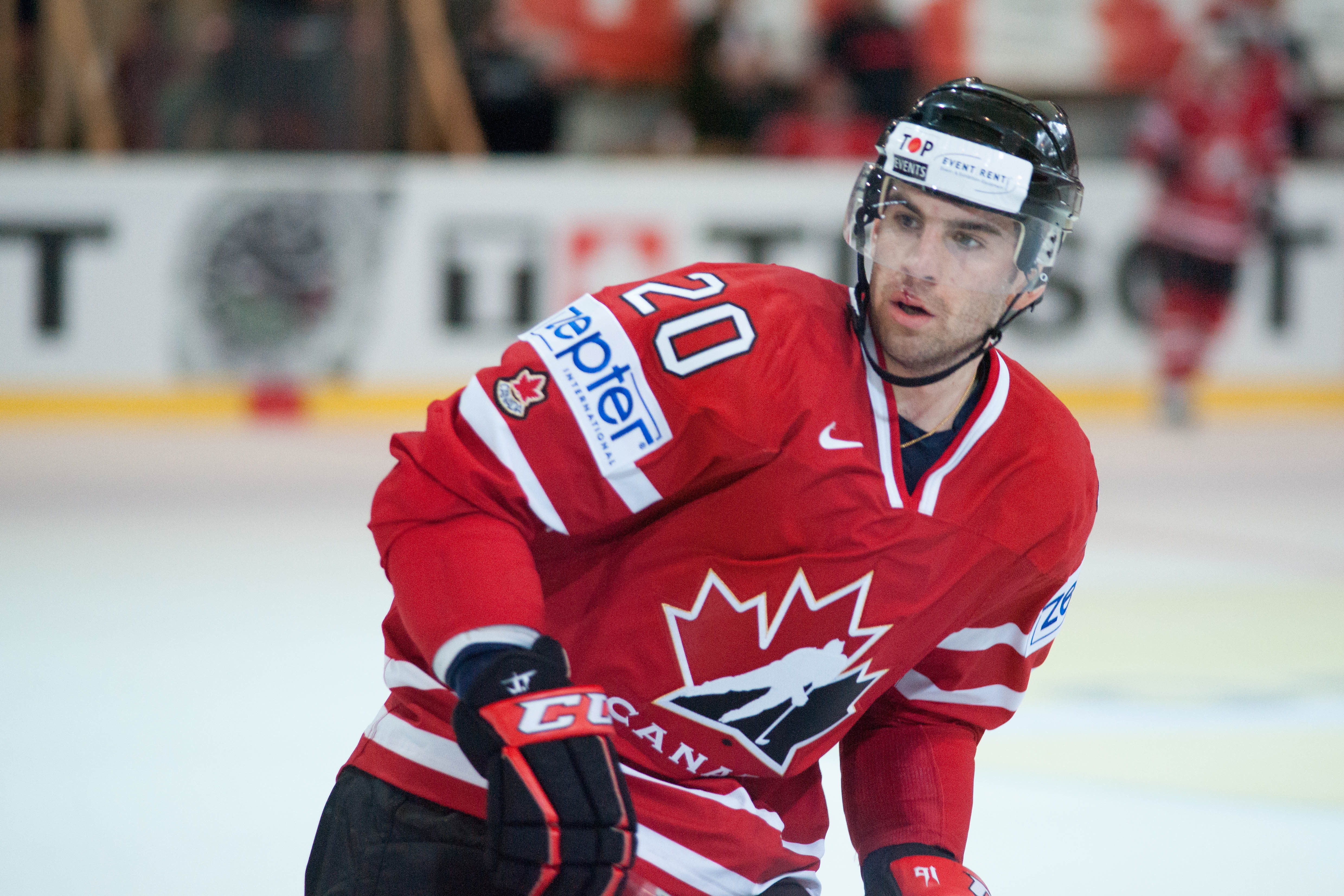 Switzerland vs. Canada, 29th April 2012